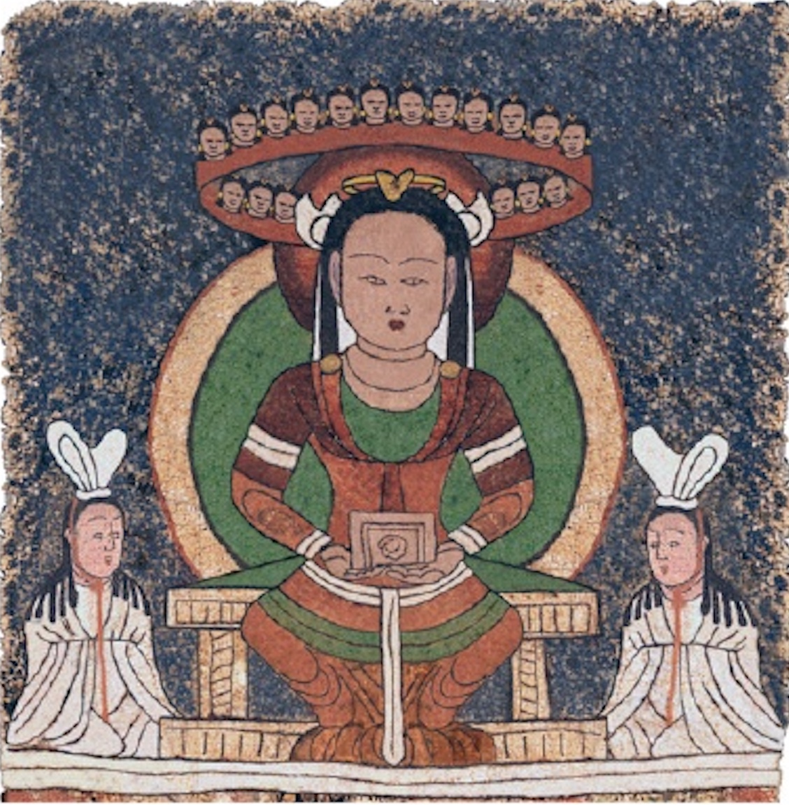 Icon of the Light Maiden: digital reconstruction of the enthroned Light Maiden image on a Manichaean temple banner from ca. 10th-century Kocho.